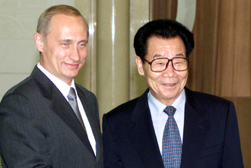 THE PEOPLE'S ASSEMBLY, BEIJING. President Putin with Li Ruihuan, Chairman of the Chinese People's Political Consultative Conference.